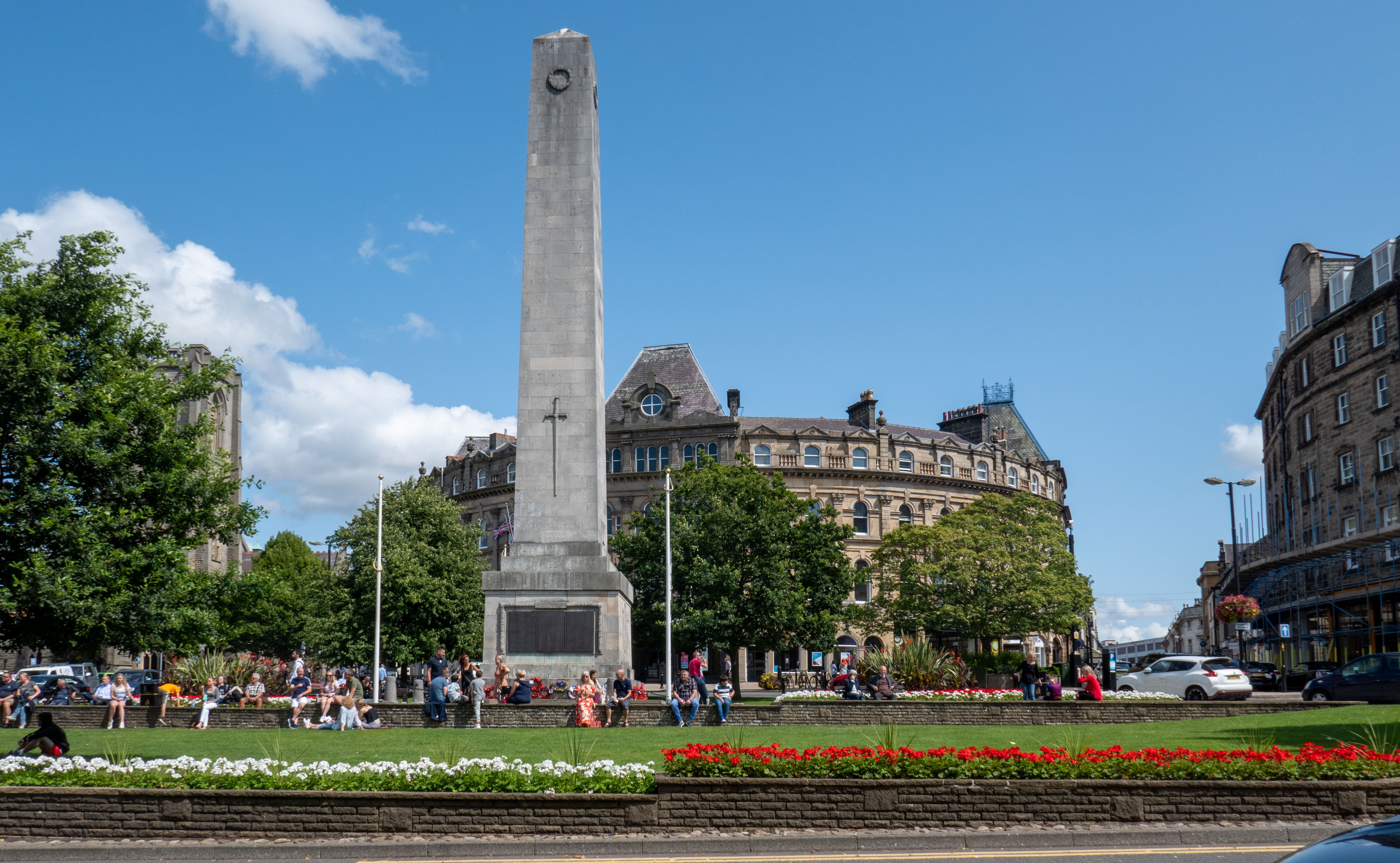 Harrowgate cenotaph, a war memorial to soldiers who died in the 1st and 2nd world wars